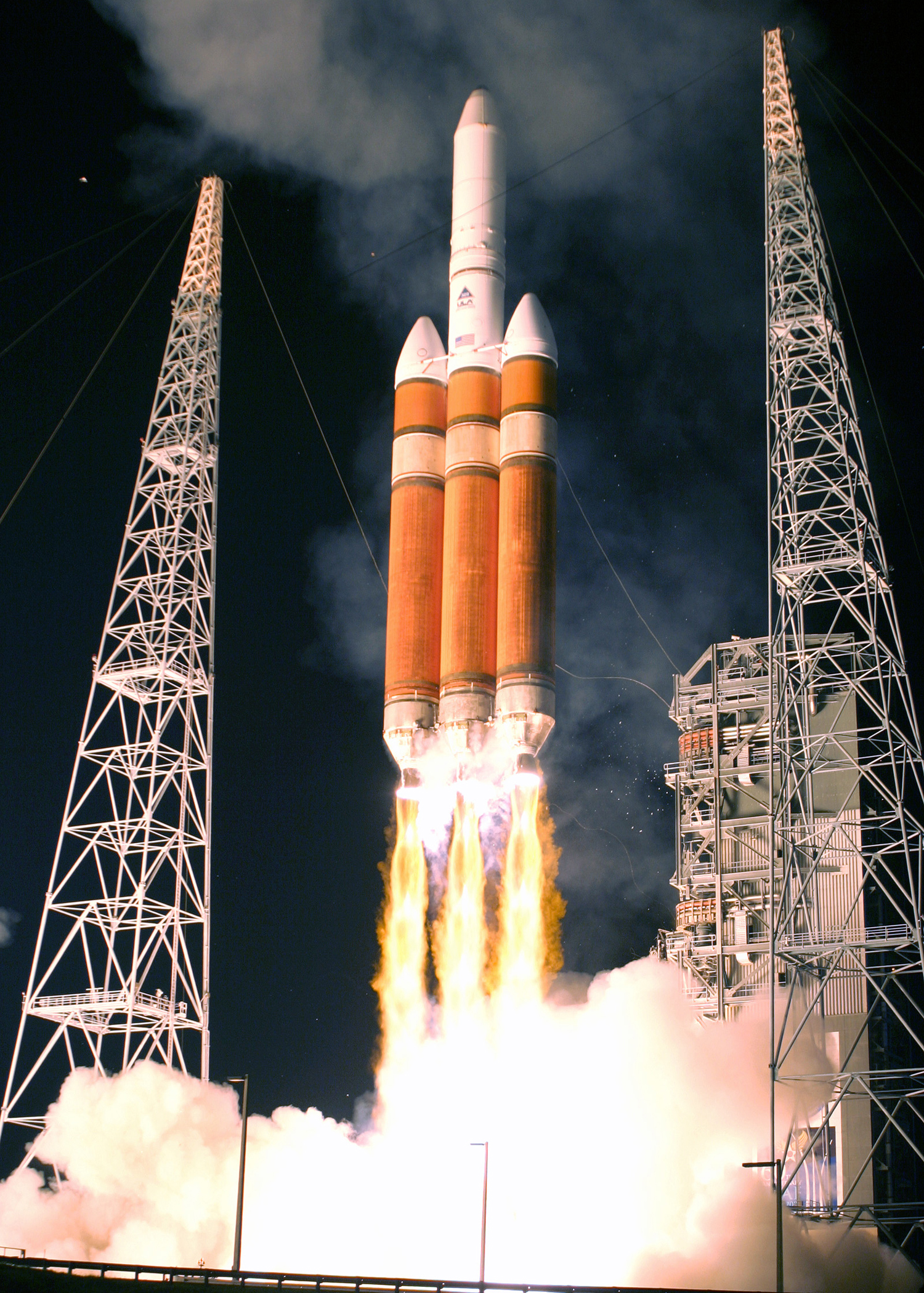 Delta-4H with DSP-23 early warning satellite: Defense Support Program Flight 23 takes off into the night Nov. 10 aboard Boeing's new Delta IV Heavy Evolved Expendable Launch Vehicle. Flight 23 marked the end of a 36-year era of DSP satellites. The program will be succeeded by the Space-Based Infrared System program.